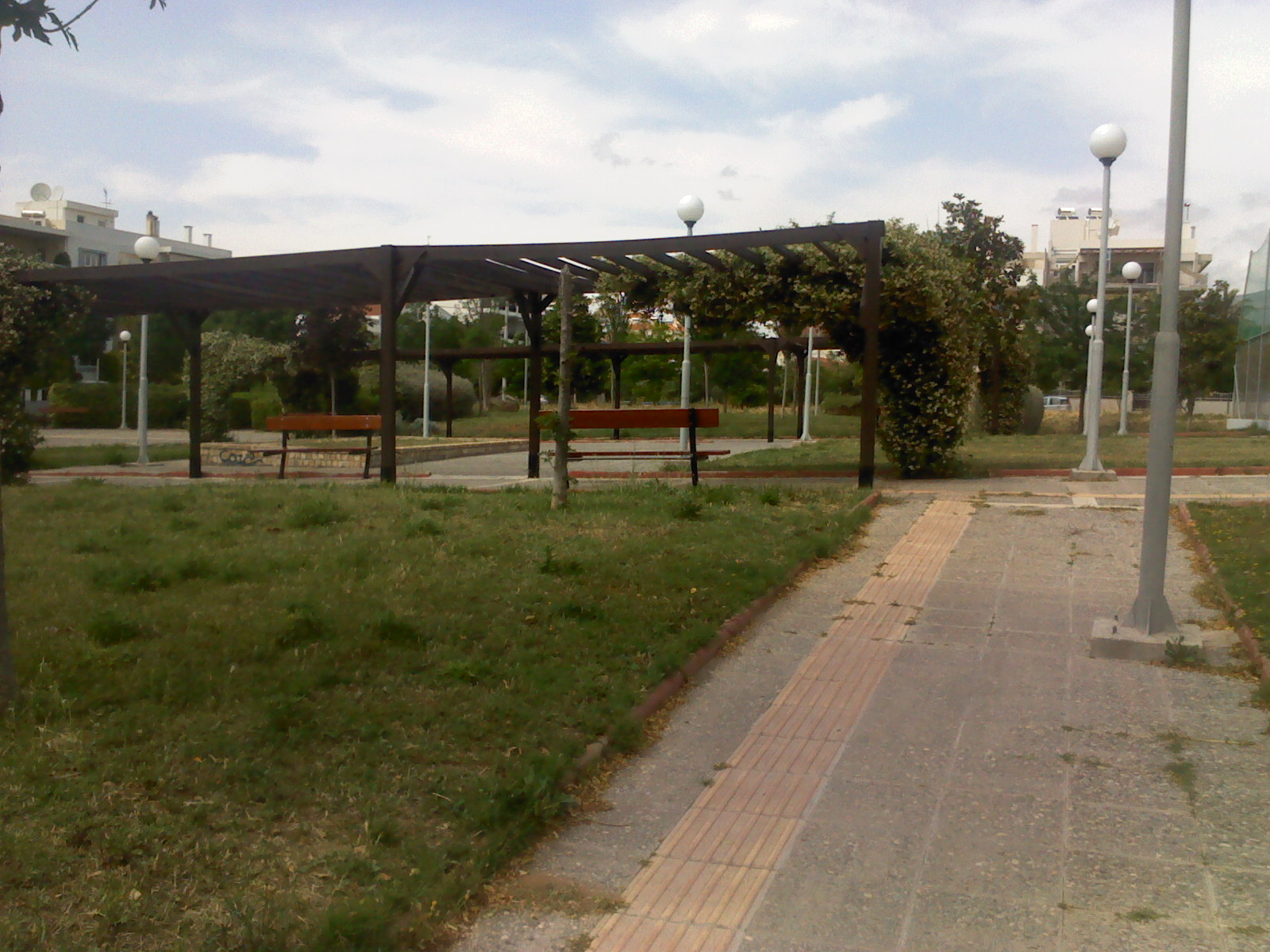 Parko Zekakou